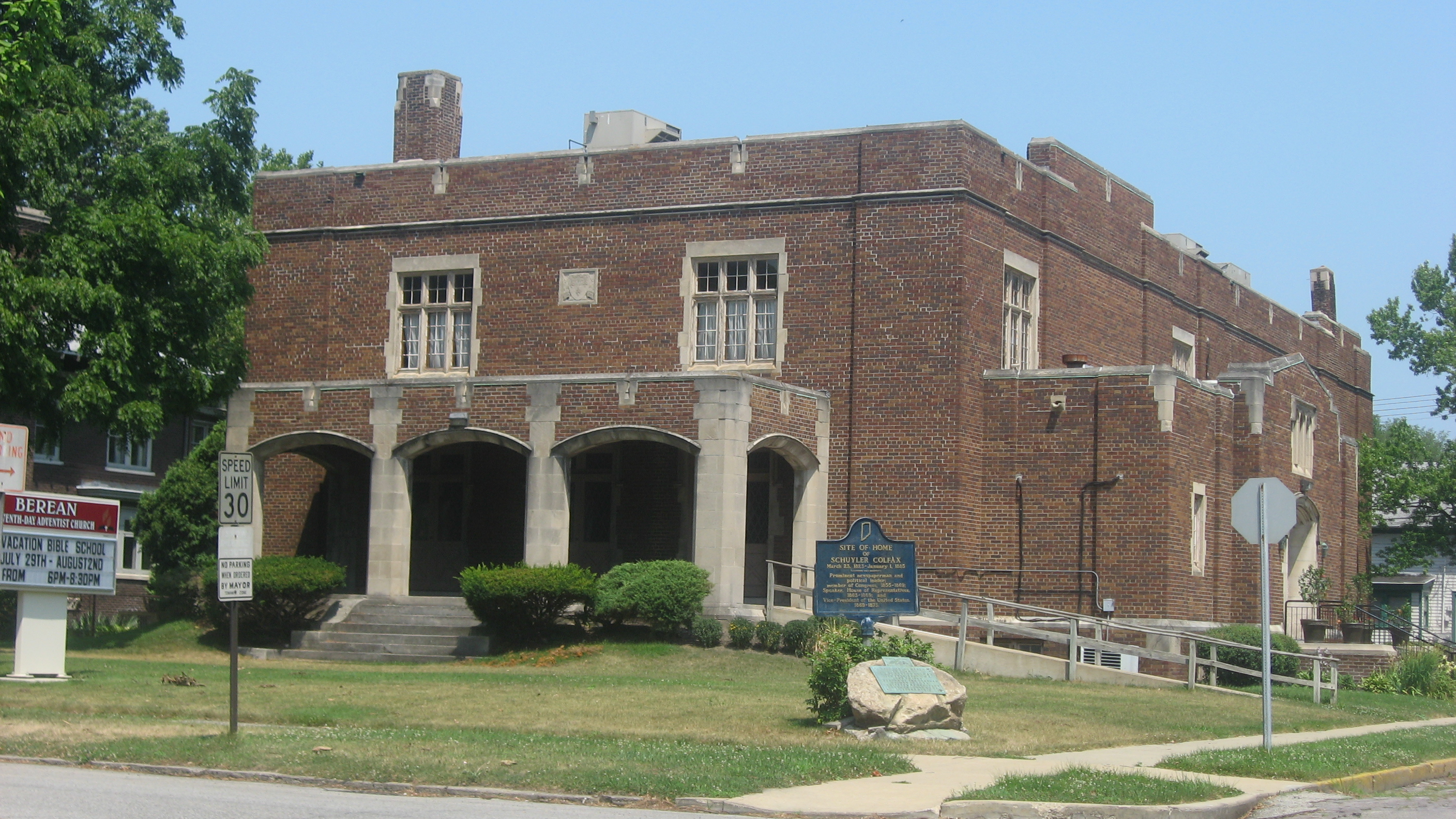 Front and eastern side of the Berean Seventh-Day Adventist Church (formerly the Progress Club), located at 601 W. Colfax Avenue in South Bend, Indiana, United States. Built in 1928, it is part of the West Washington Historic District, a historic district that is listed on the National Register of Historic Places. Note the historical marker; the church occupies the site of a home of Schuyler Colfax, Vice President of the United States.